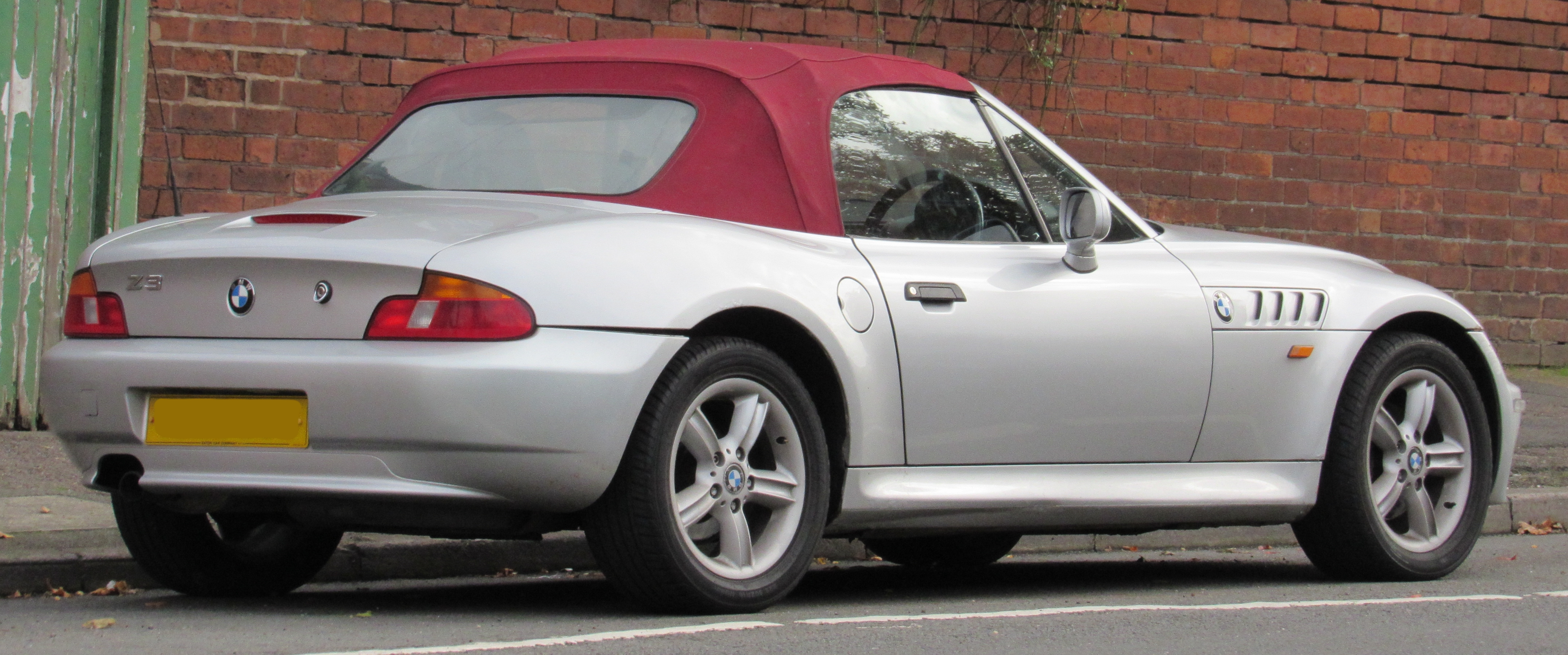 1999 BMW Z3 1.9 Rear Taken in Leamington Spa